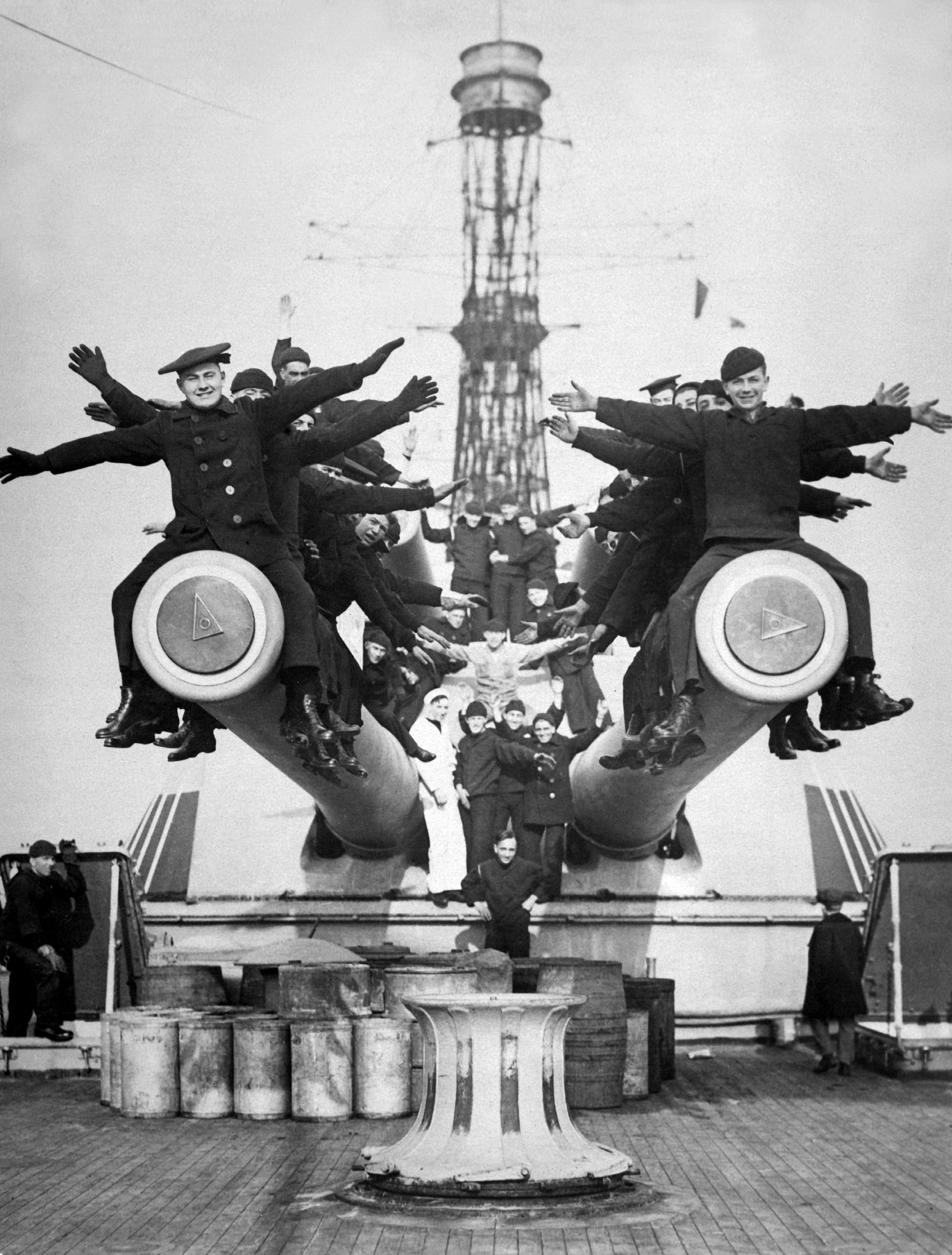 "Gobs" and Guns. A scene aboard the U.S.S. Texas, just back from foreign waters, showing the "gobs" enjoying a little fun on the big guns. Ca. 1918. Underwood & Underwood. (War Dept.) Exact Date Shot Unknown NARA FILE #: 165-WW-332D-43 WAR & CONFLICT BOOK #: 469